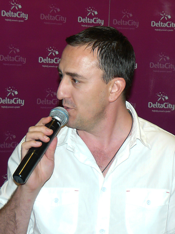 Sergej Cetkovic, Montenegrin Singer